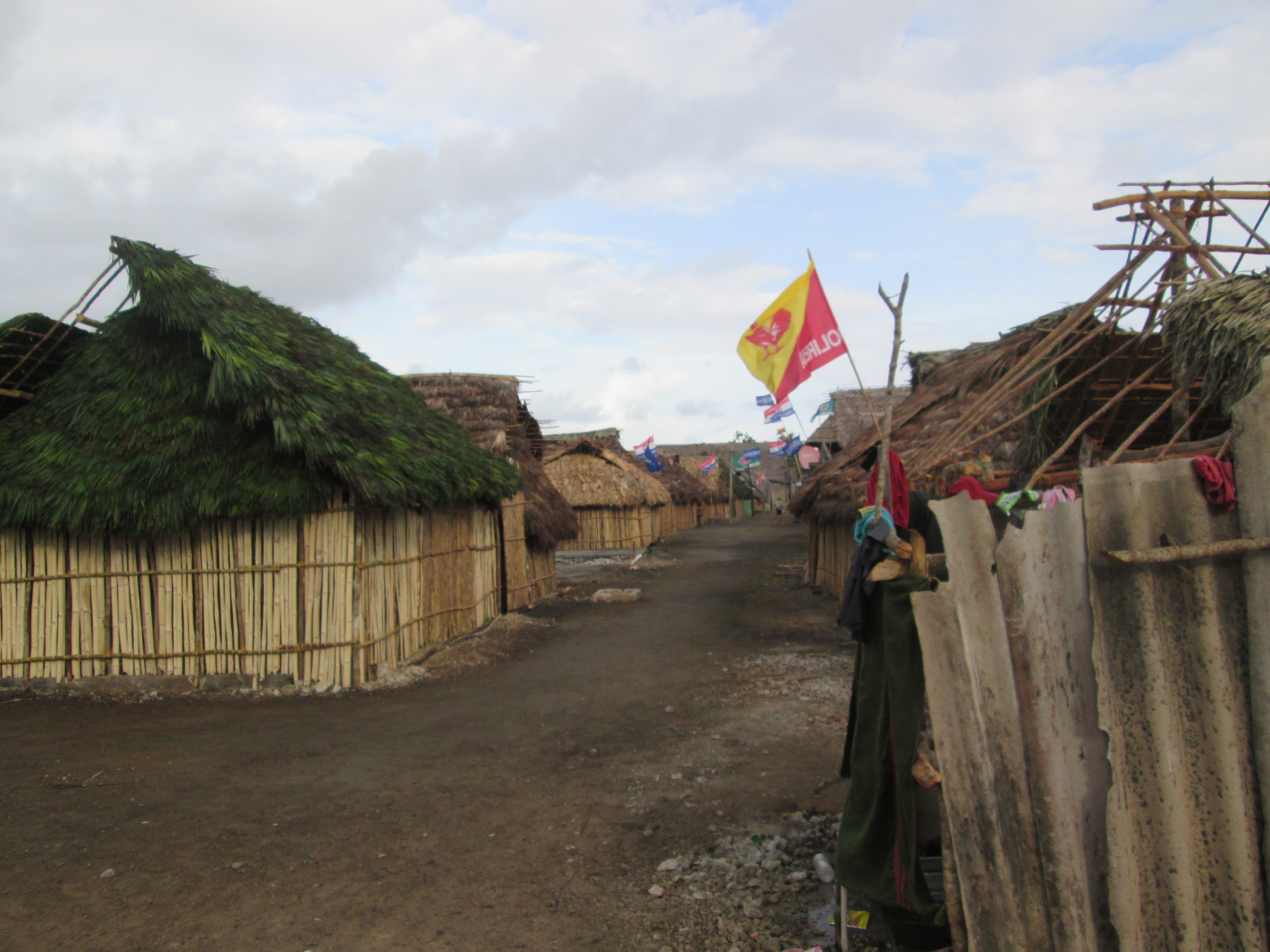 A photo of thatched huts on a dirt road in Playón Chico (Ukupseni). The flags are for political parties in an upcoming election. The construction is to replace houses damaged in a fire.